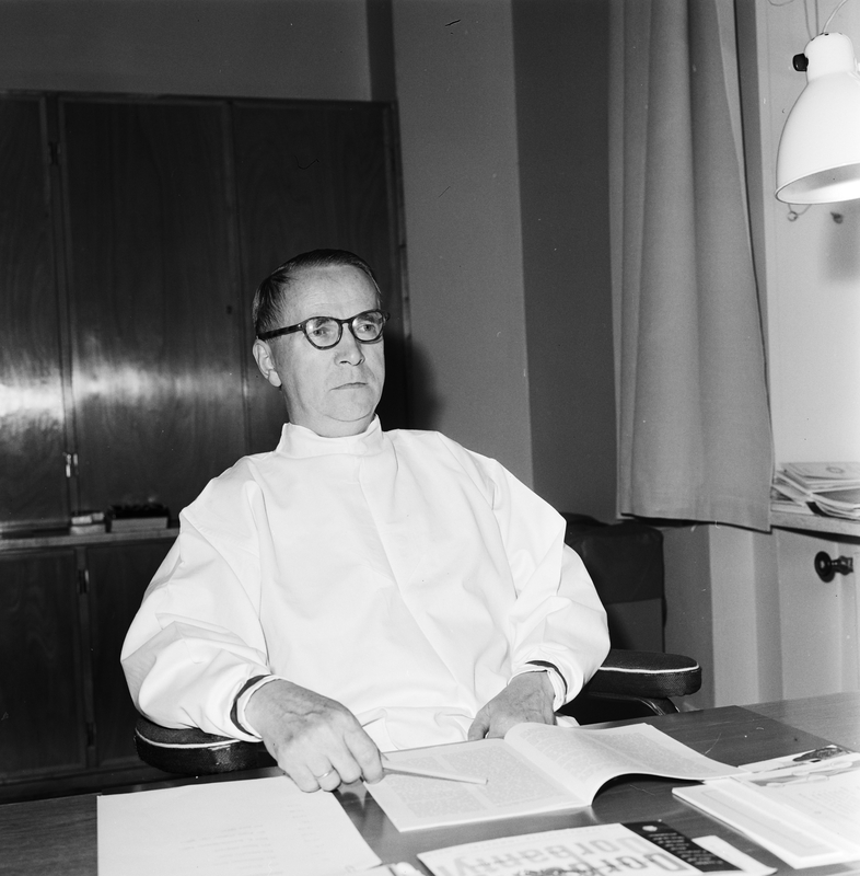 Norwegian medical professor Niels Christian Gauslaa Danbolt (1900–1984), pictured in 1958